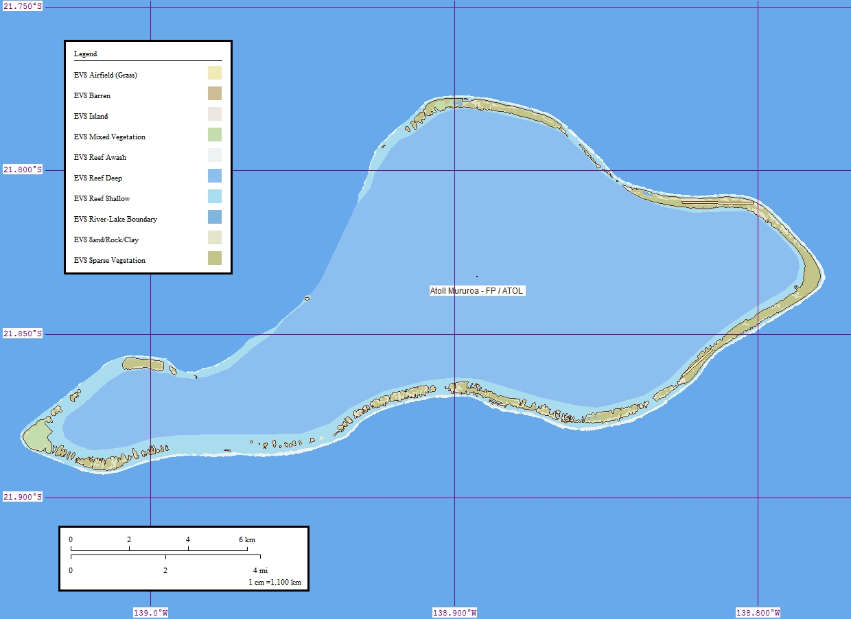 Mururoa Atoll - EVS Precision Map (, Tuamotu Archipelago, French Polynesia